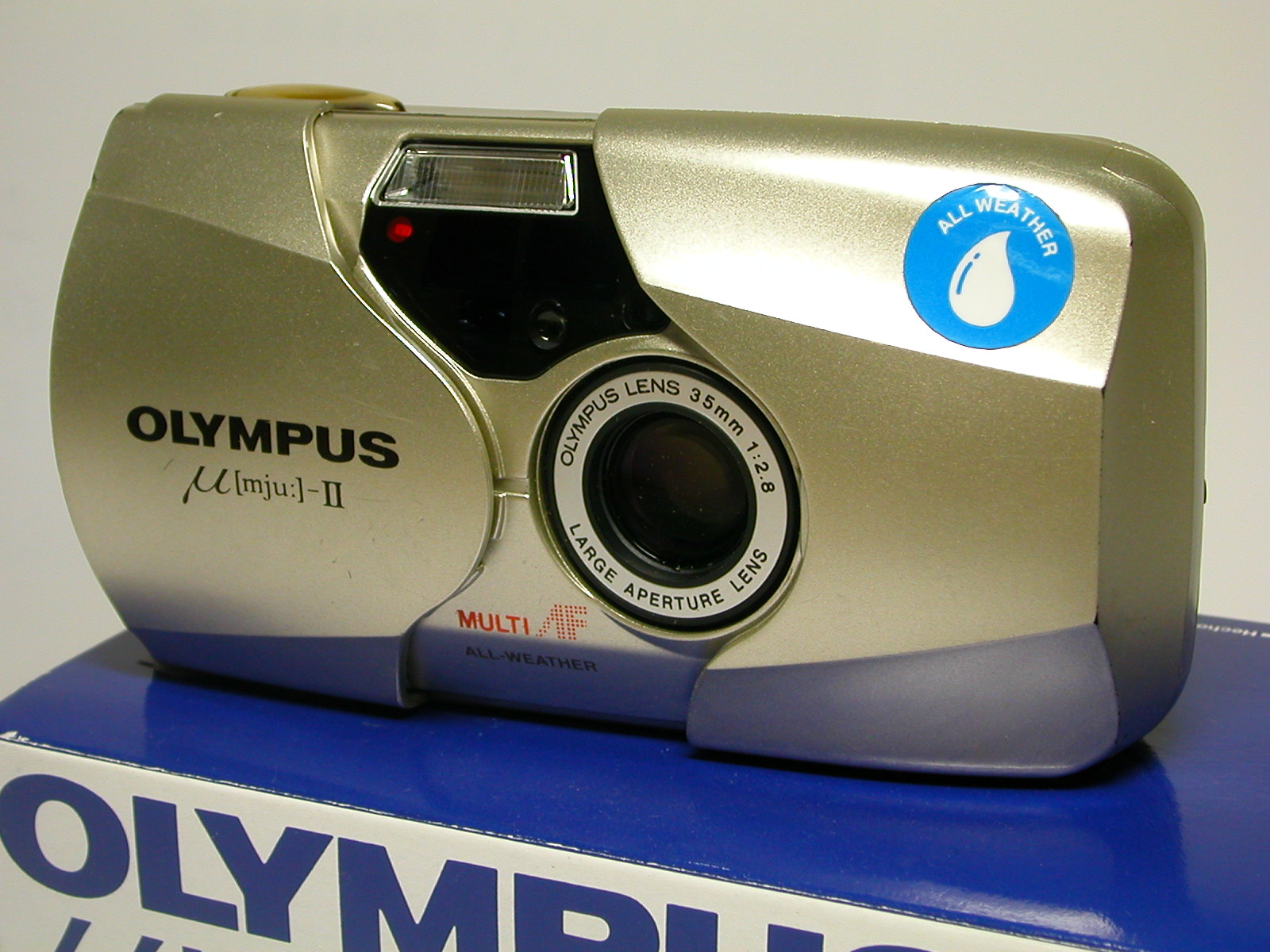 Olympus μ-II gold-body. Front view.